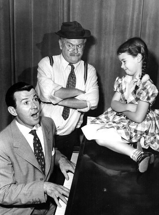 Photo of Dennis Day, Cliff Arquette (as Charley Weaver) and Jeri Lou James from the television program The RCA Victor Show Starring Dennis Day. The show was re-named later to The Dennis Day Show. In the photo, Day serenades Jeri Lou while "Charley Weaver", who was a regular on the show, looks on.